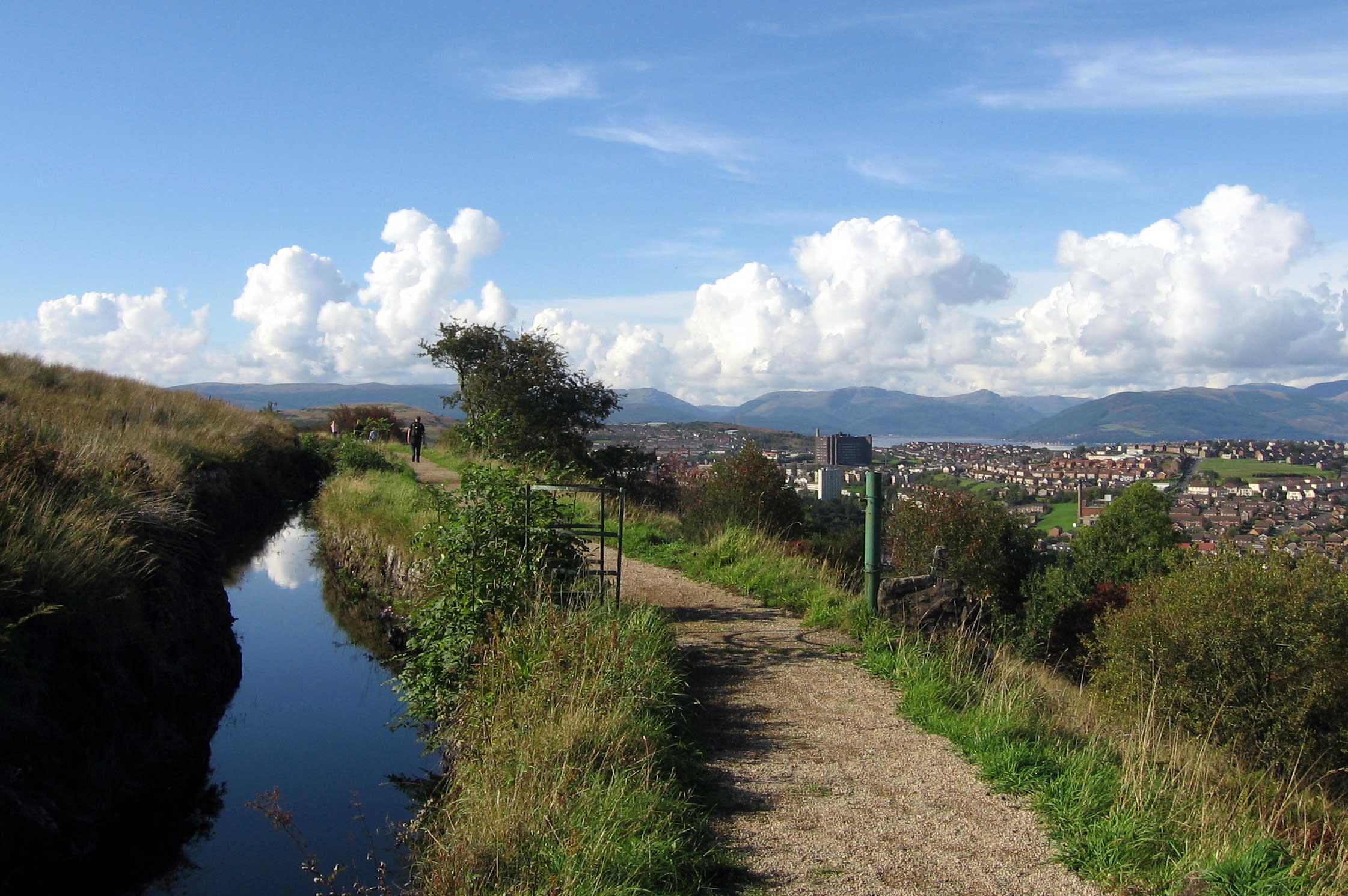 The Greenock Cut, 9 km (5,5 miles) from the reservoir formed at Loch Thom, looking back from Overton, high abover the town of Greenock in Scotland, now in the District of Inverclyde.